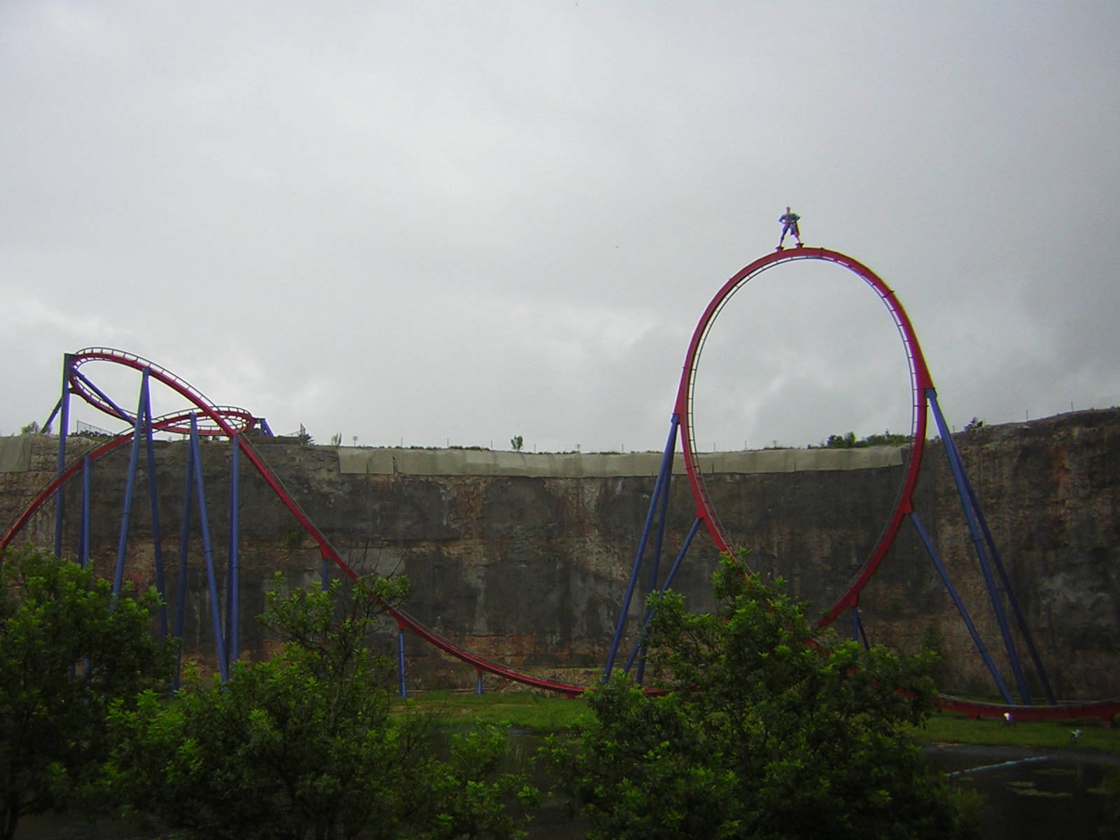 This is a really sweet B&M floorless coaster which integrates very well with the landscape.